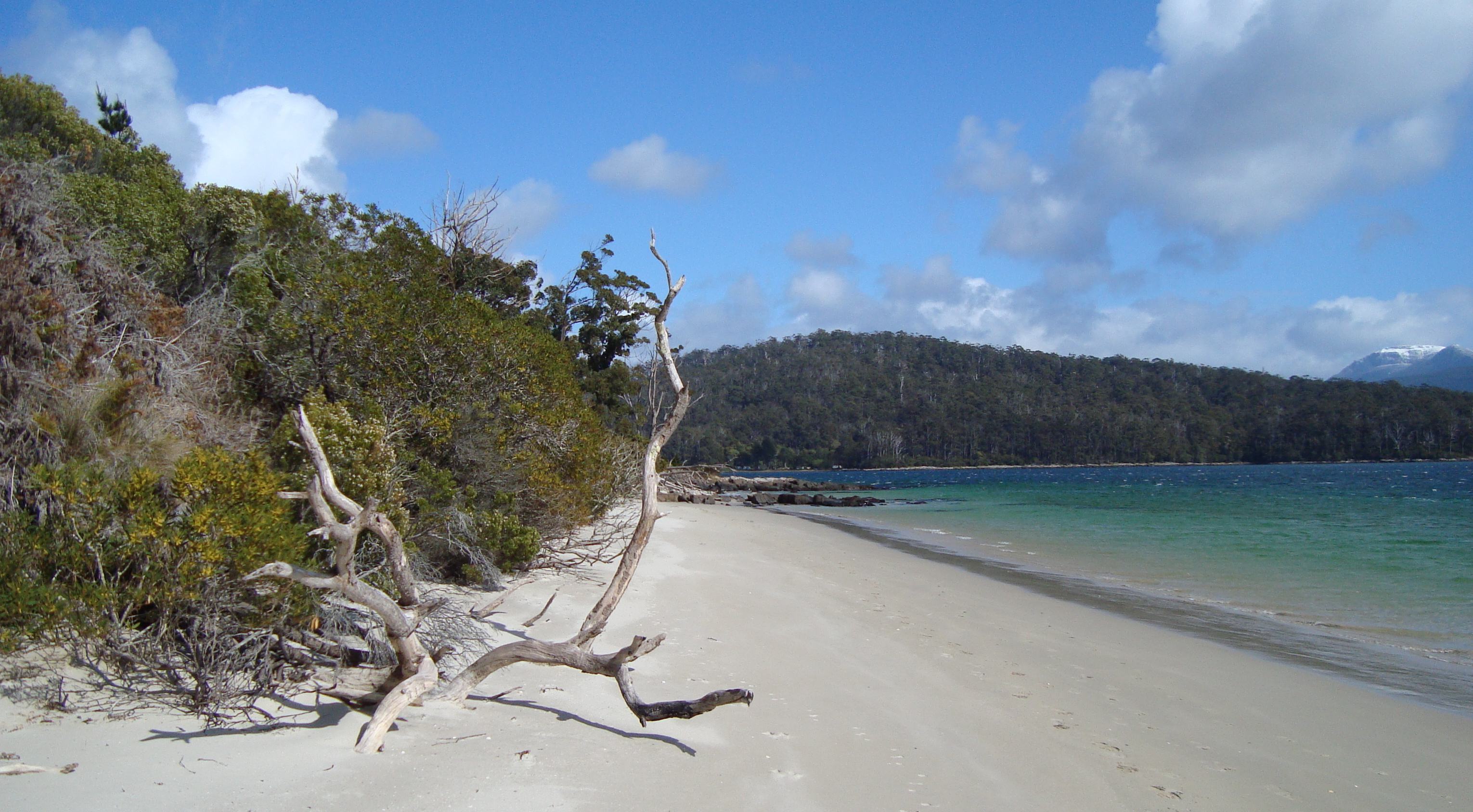 A beach between Cockle Creek and Fishers Point on Recherche Bay, Tasmania